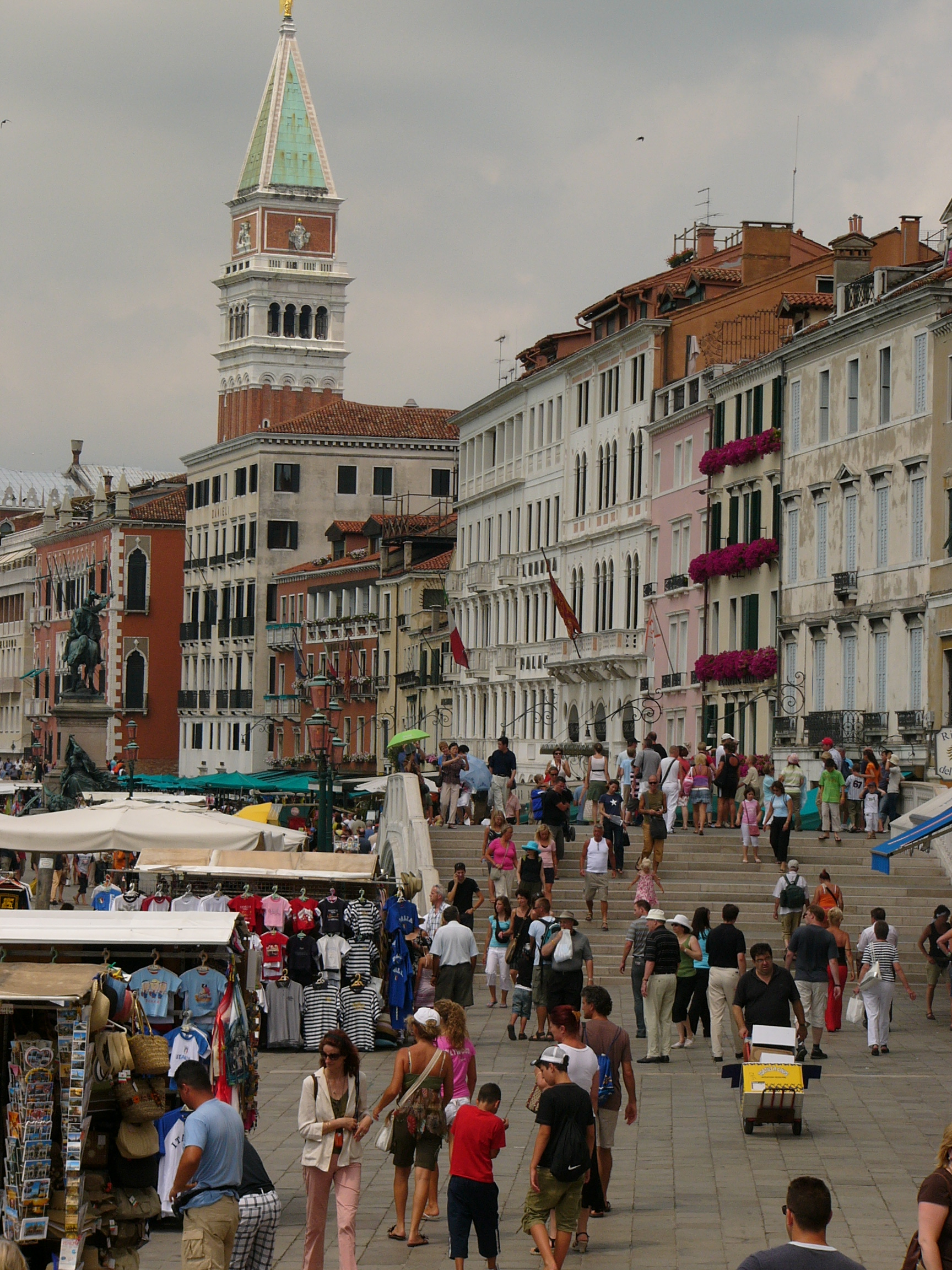 Riva degli Schiavoni, Venice